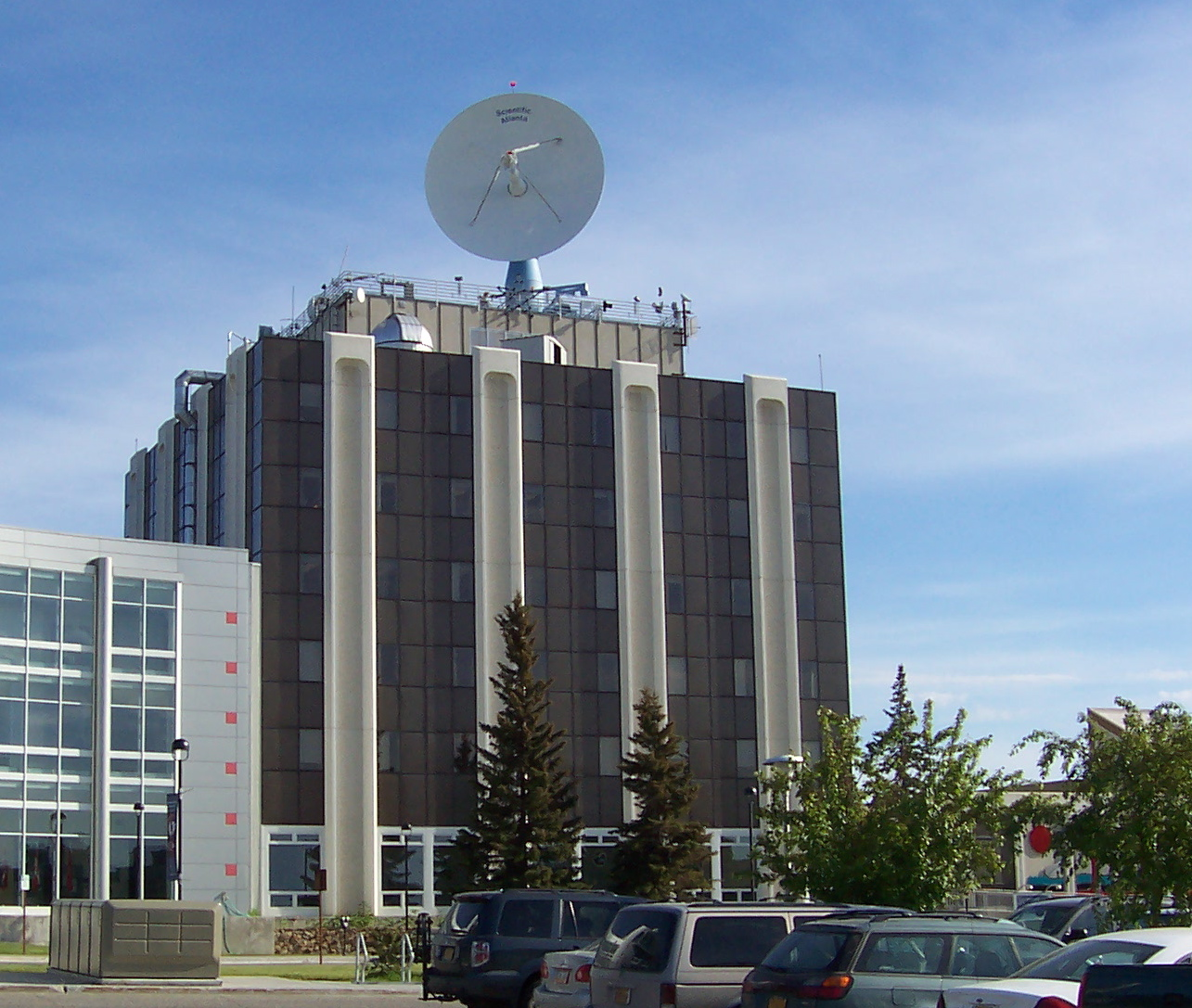 Geophysical Institute on the University of Alaska Fairbanks campus.